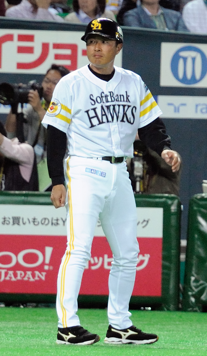 Tatsuya Ide, coach of the Fukuoka SoftBank Hawks, at Fukuoka Dome.